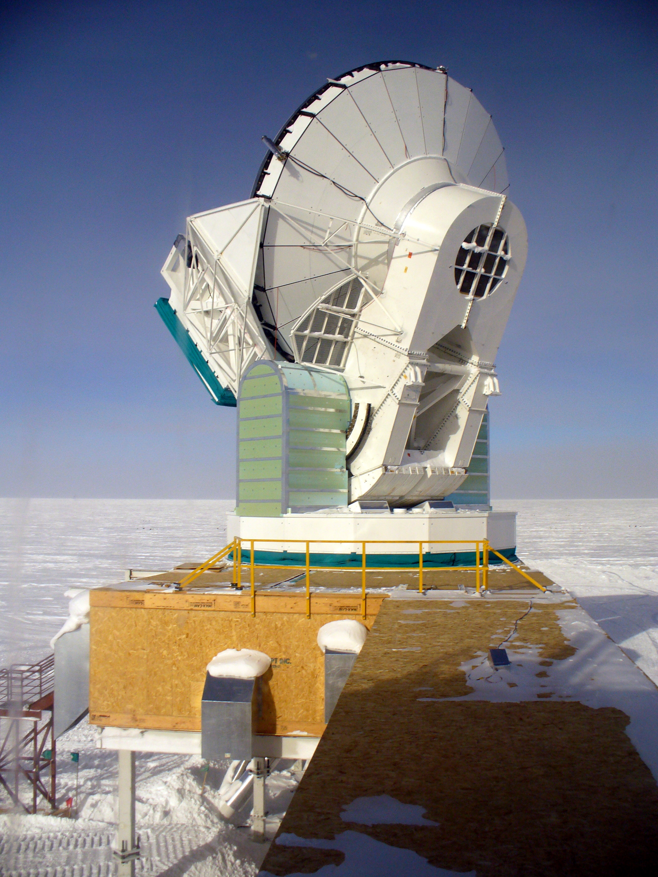 The South Pole Telescope in November of 2009, before the blue siding was added to the SPT control room and walkway.